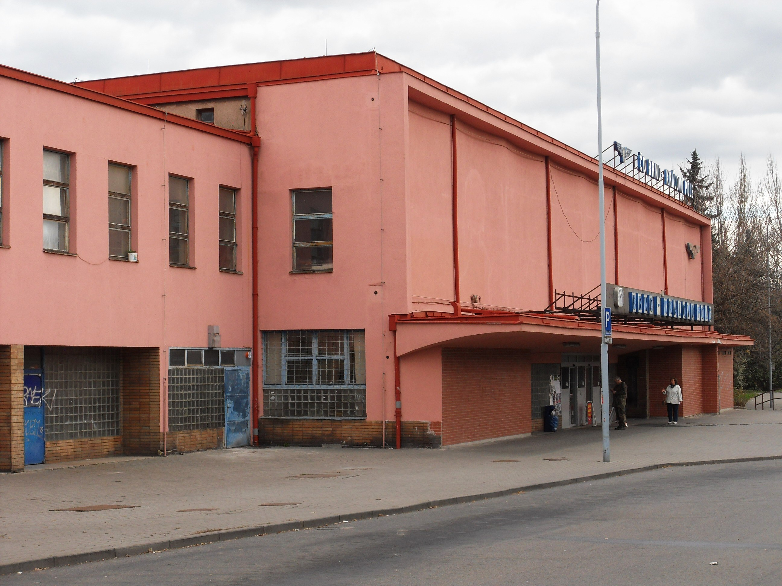 Train station Brno-Královo Pole, Brno, Czech Republic